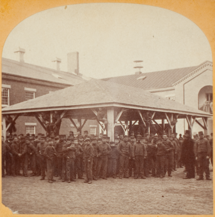 Exercise Yard